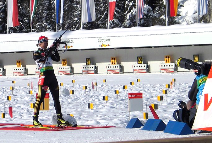 German biathlete Magdalena Neuner at the World Cup in Razen-Antholz, Italy, January 2009 Cropped from File:Neuner-Antholz09-1 (1).jpg